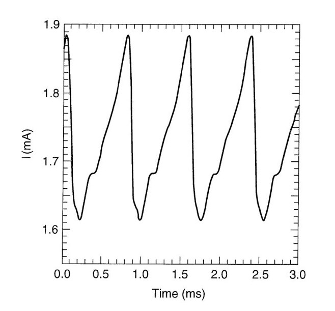 Periodic current oscillation in a Gunn diode (Cantalapiedra et. al. 1993)